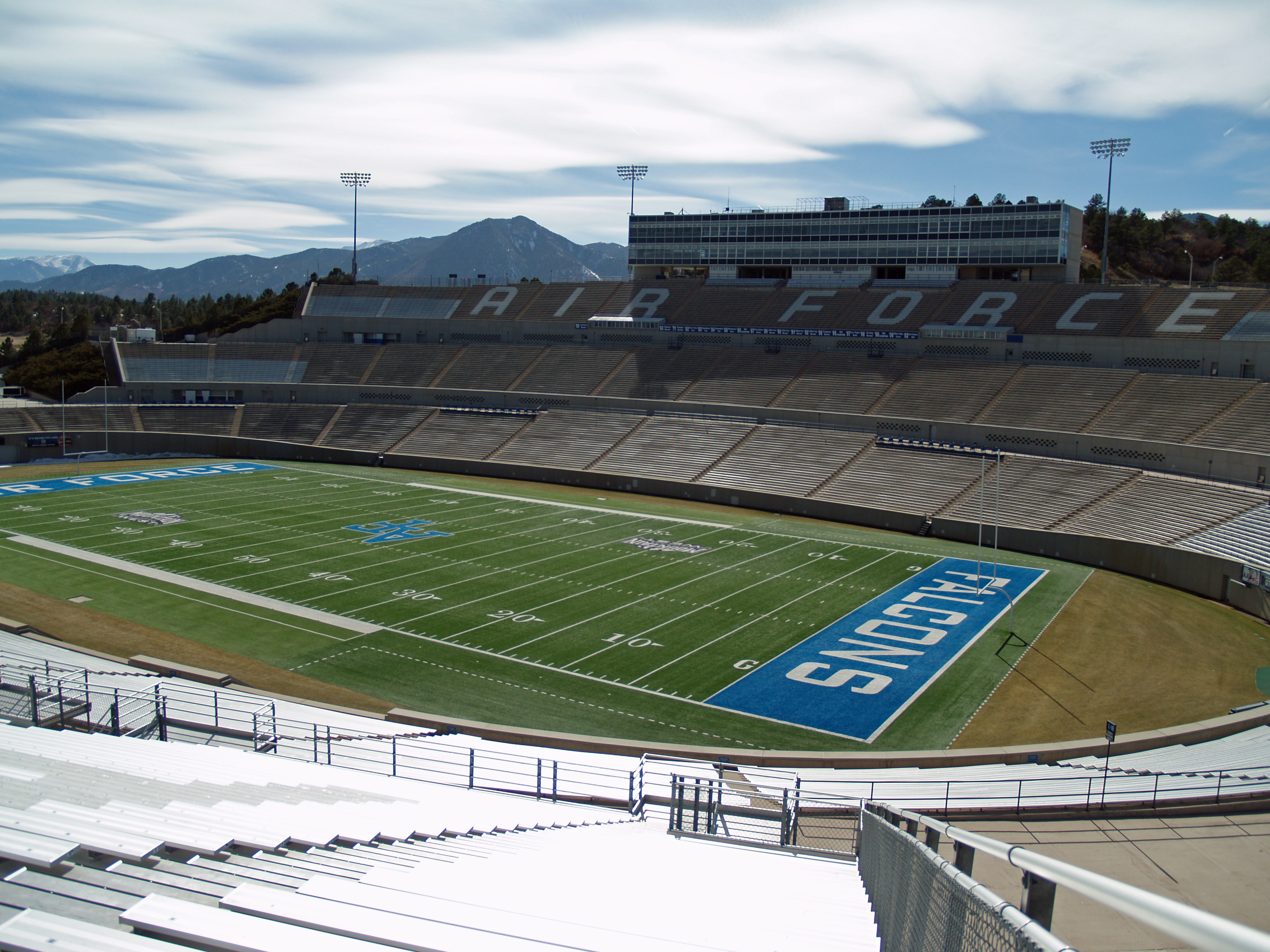 The Falcon Stadium at the United States Air Force Academy in Colorado Springs, Colorado.